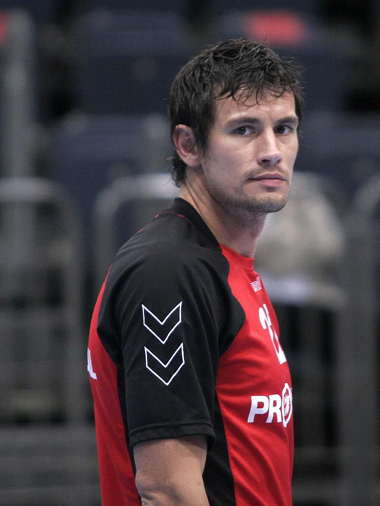 Marcin Lijewski, handball player of SG Flensburg-Handewitt, in the Kölnarena prior the gane VfL Gummersbach - SG Flensburg-Handewitt